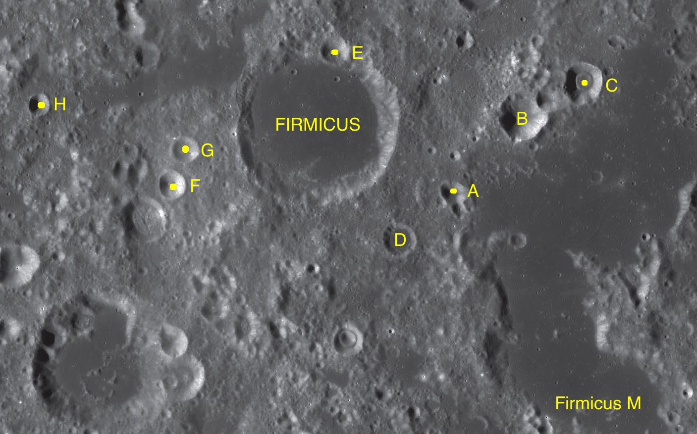 Part of the chart LAC-62 used for the presentation.